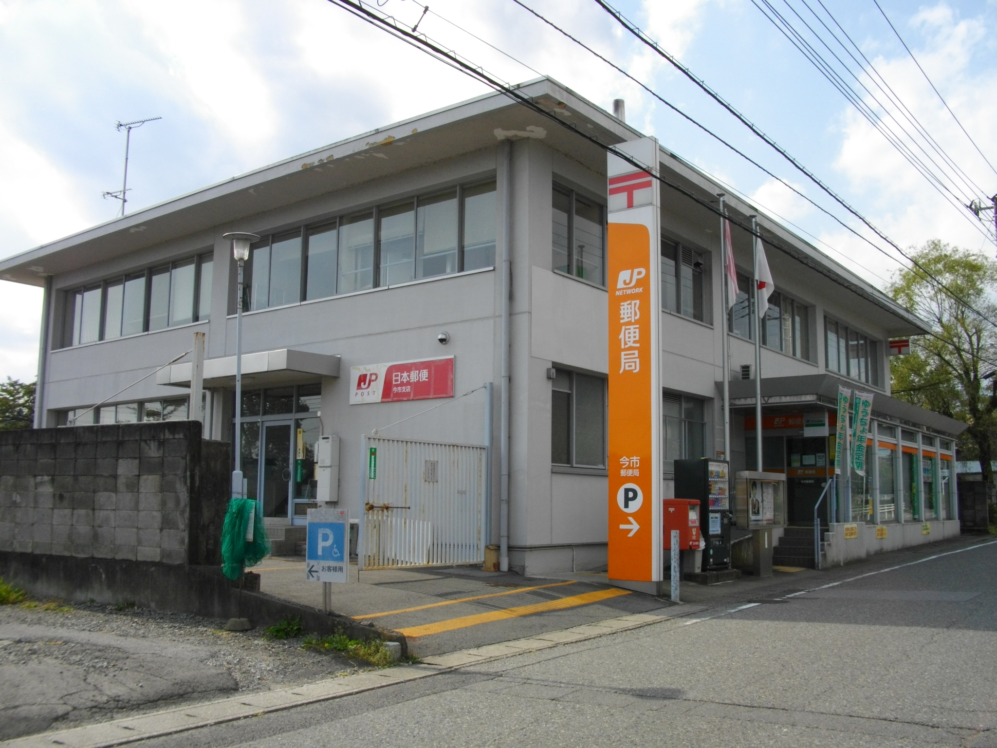 Imaichi Post Office